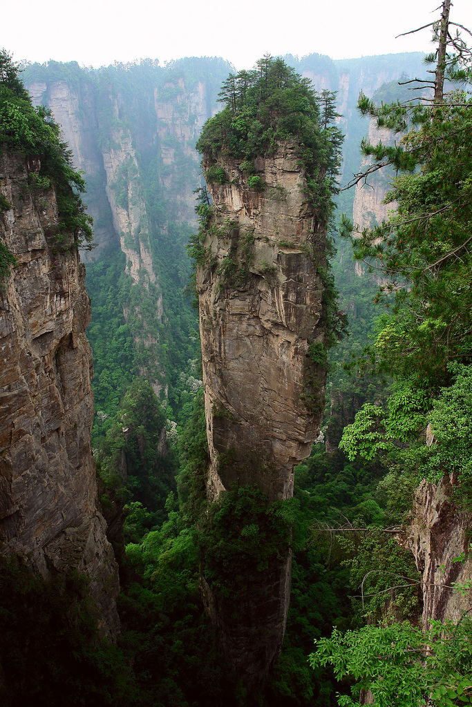 Wulingyuan, Zhangjiajie, Hunan Prov., China. Tree at right is Pinus tabuliformis.